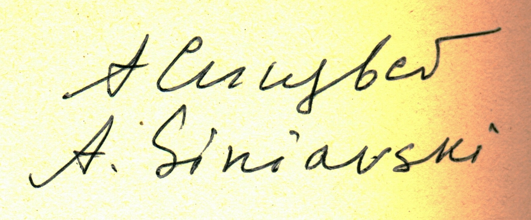 Autograph of Andrej Donatovič Sinjavskij - Varese - Italy - April 1983.